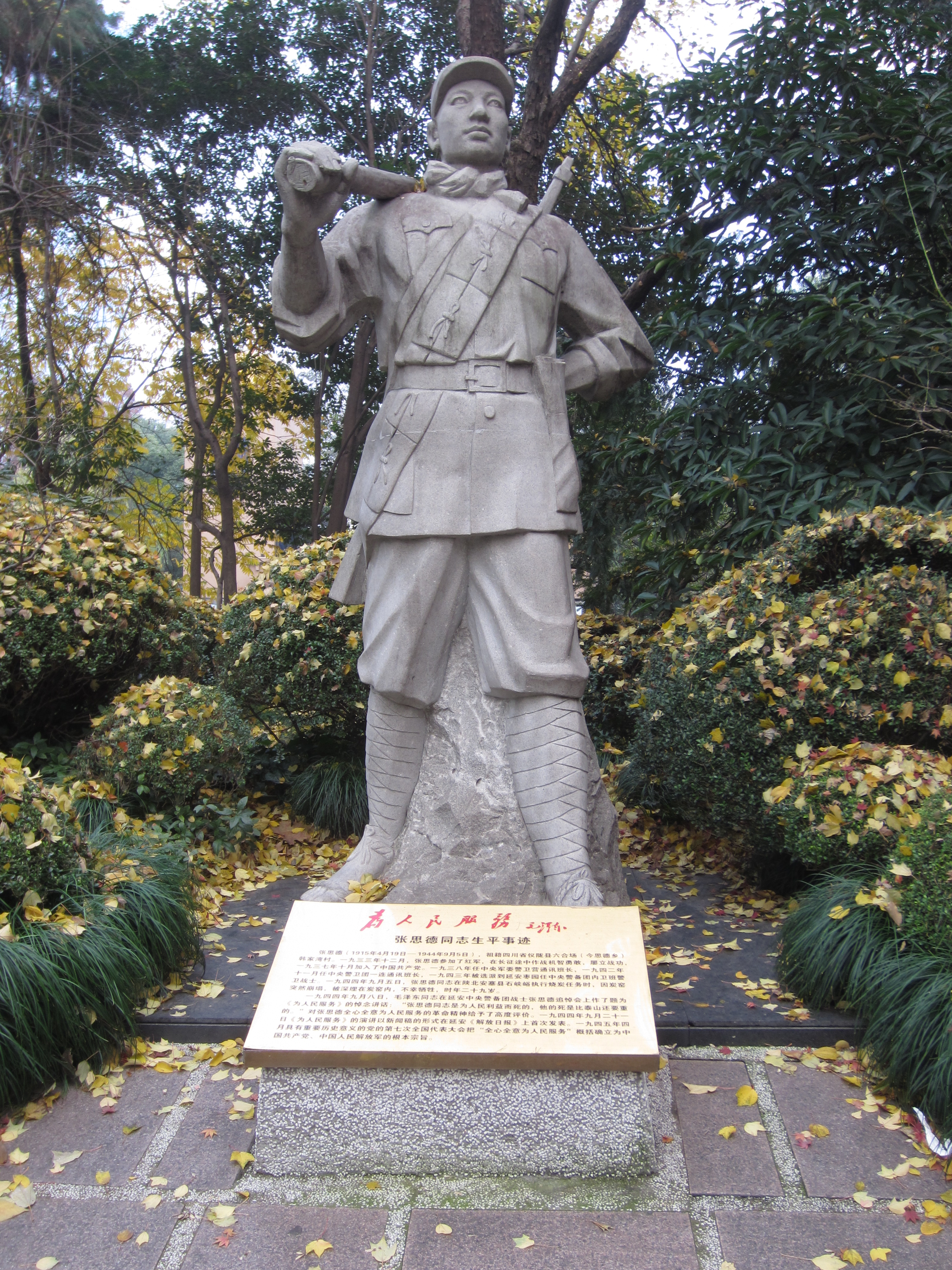 Shanghai (December 2015)